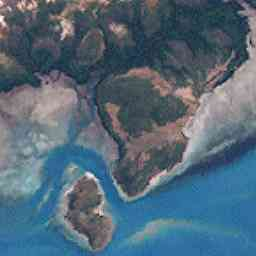 Port Lihou Island (middle) and Packe Island (bottom, left). Upper screen shows south-east coast of Prince-of-Wales-Island, Torres Strait Islands, Queensland, Australia